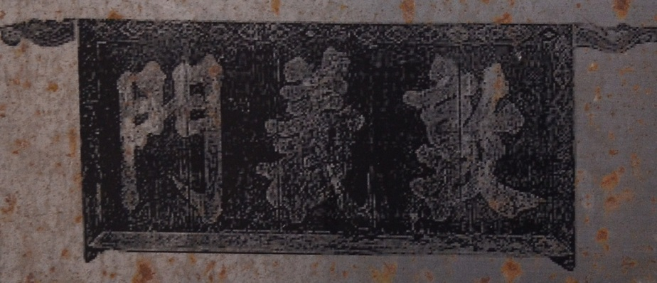 Signboard for Donuimun Gate, Seoul, South Korea. Donuimun was also known as Seodaemun, or West Big Gate. Photographed May 27, 2012. Image taken from signboard depiction on West Gate memorial, at location of former West Gate.